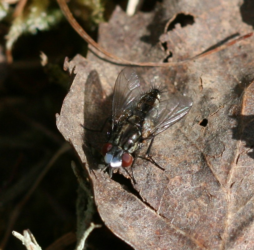 A Satellite Fly. These are cleptoparasites of various solitary wasps and bees